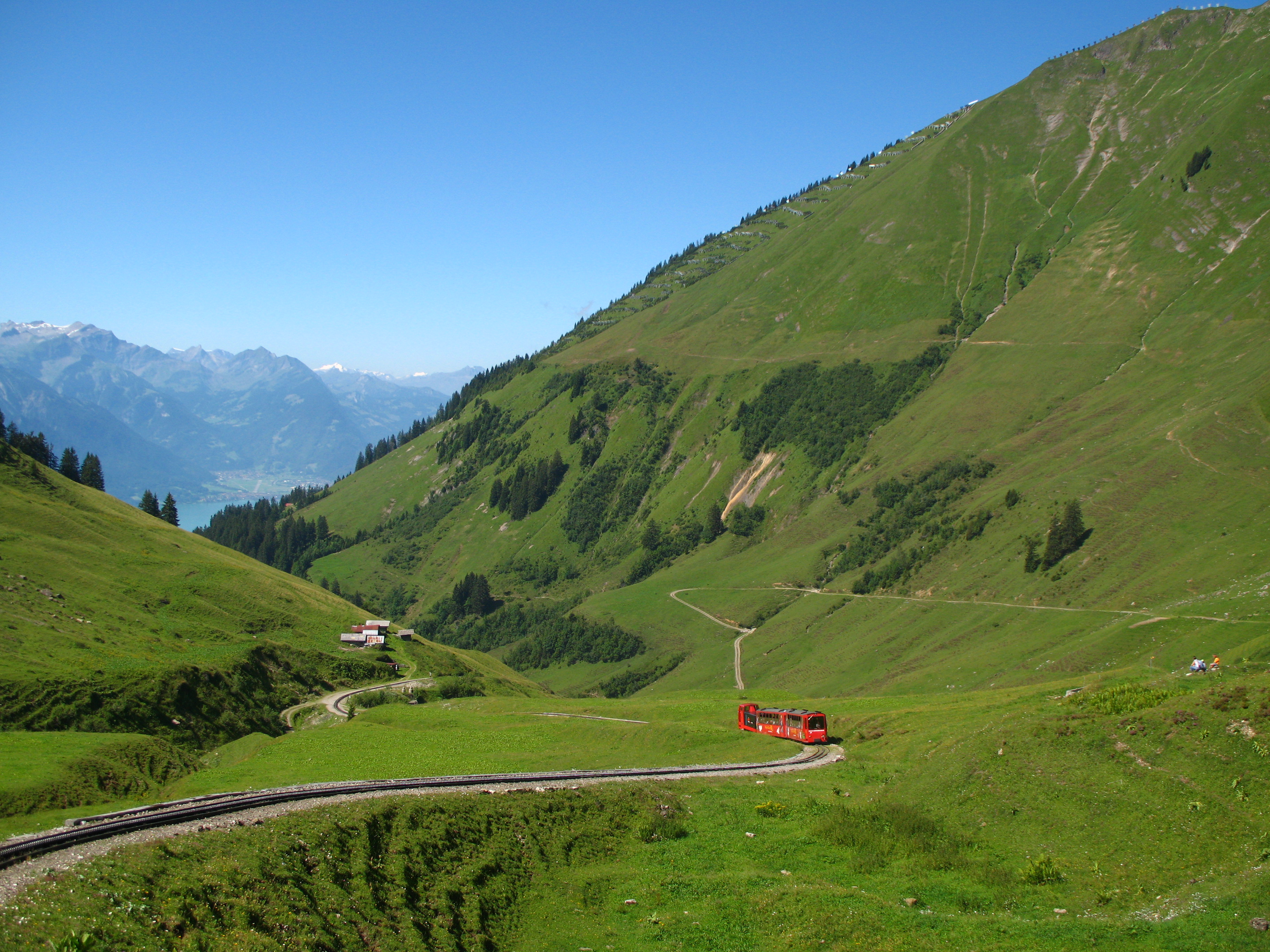 Brienz Rothorn Bahn (BRB), Brienz, Switzerland